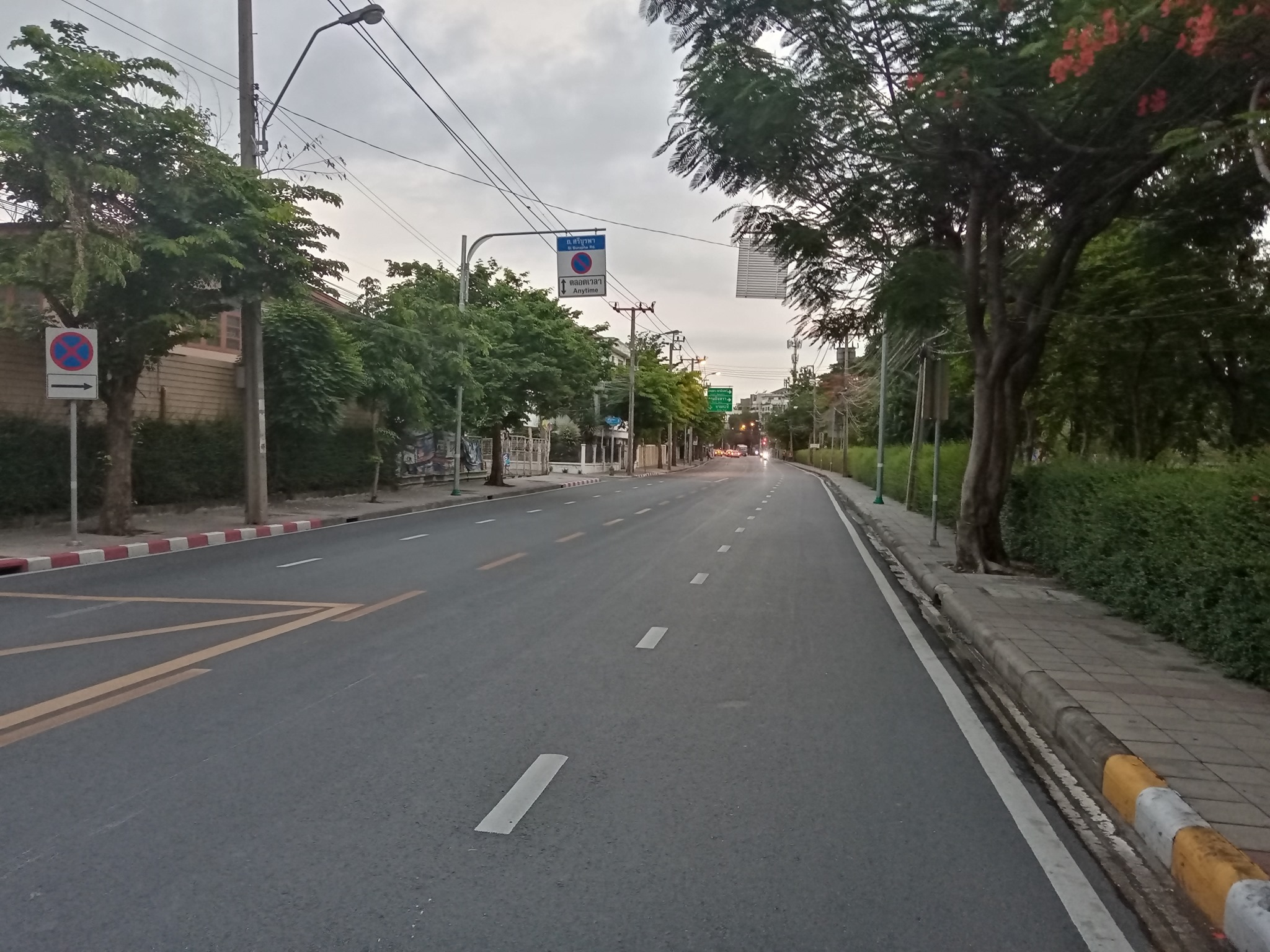 Si Burapha Rd., BKK.